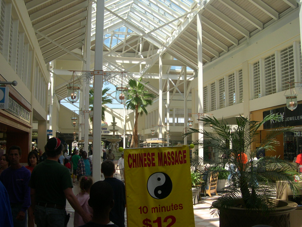 The new center court of Oglehorpe Mall after the 1989 renovation